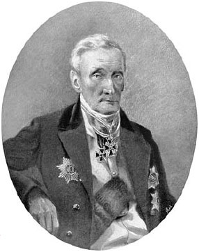 Grandfather of HPB